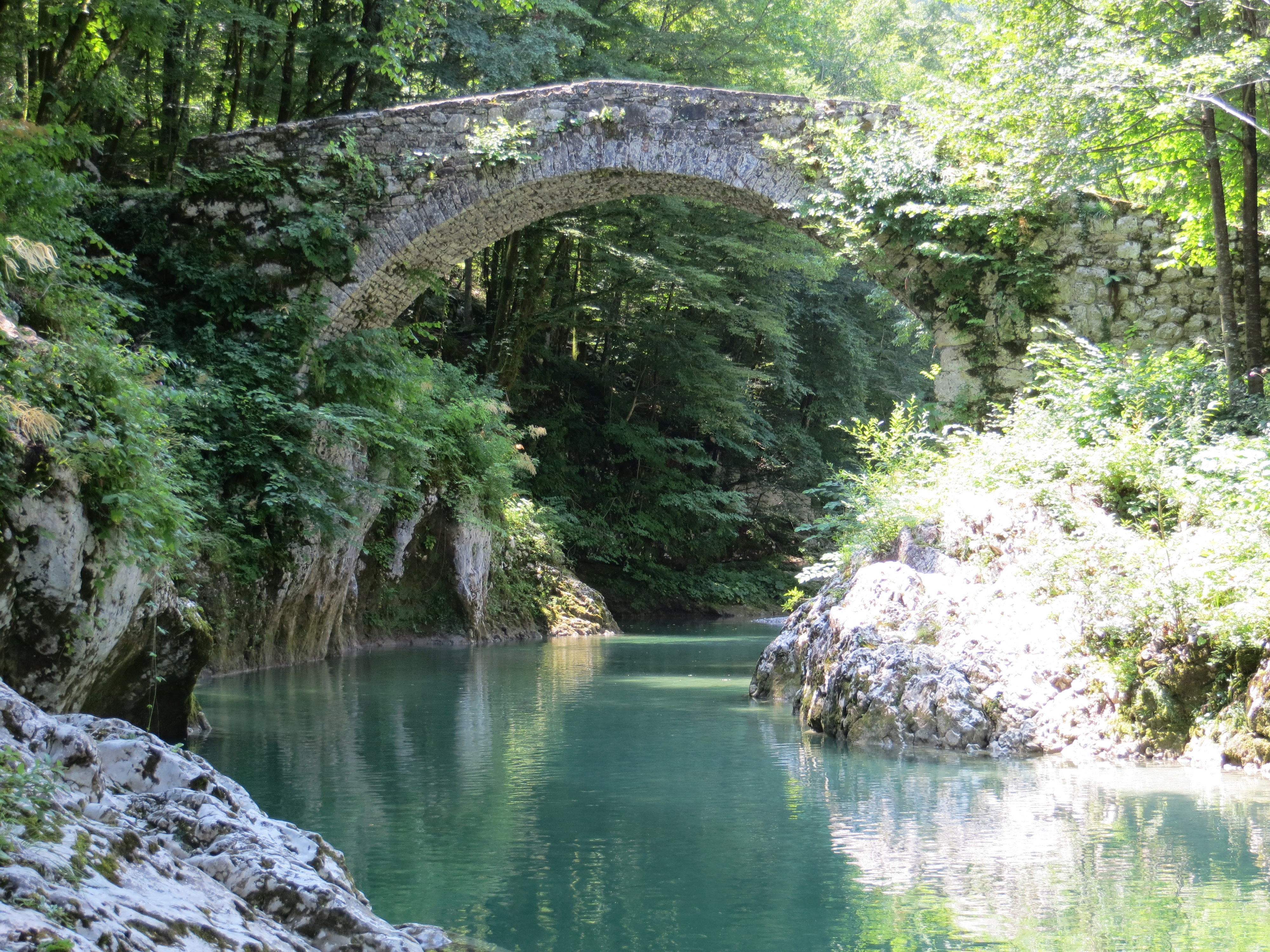 Napoleon Bridge across the Nadiža River in Logje, Municipality of Kobarid, Slovenia